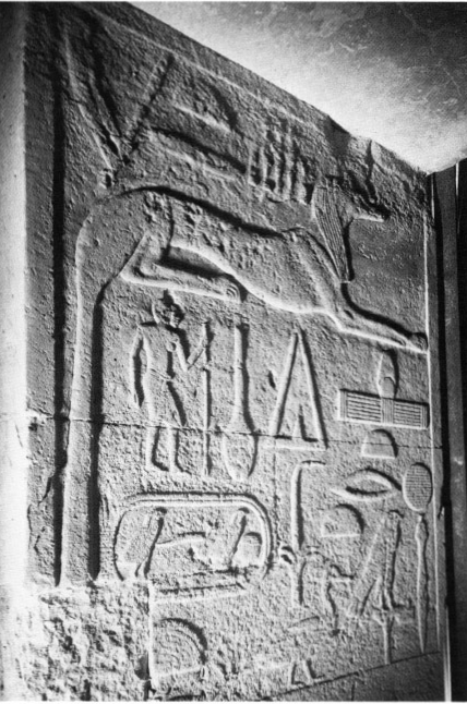 Mastaba of an egyptian prince of the 4th dynasty